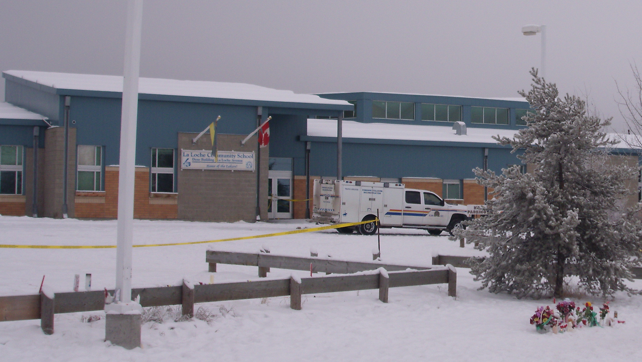 Dene Campus of the La Loche Community School in La Loche, Saskatchewan on January 24, 2016